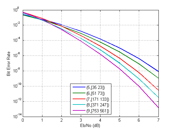 MATLAB script: clear all ; close all ; clc EbNo = 0:7; lens = 5:9; gens = 35 23]; [51 73]; [171 133]; [371 247]; [753 561 ; for g = 1:length(gens) spect = distspec(poly2trellis(lens(g), gens(g,:)),lens(g)) ber_soft(:, g) = bercoding(EbNo,'conv','soft',1/2,spect); ber_hard(:, g) = bercoding(EbNo,'conv','hard',1/2,spect); end ber_u = berawgn(EbNo,'psk',4,'nondiff').'; ber1 = [ber_soft ber_u]; ber2 = [ber_hard ber_u]; figure(1) semilogy(EbNo, ber1,'LineWidth', 1.5) hold on legend('Soft (5,[35 23])',... 'Soft (6,[51 73])','Soft (7,[171 133])',... 'Soft (8,[371 247])','Soft (9,[753 561])',... 'Uncoded','location','best') grid on xlabel('Eb/No (dB)') ylabel('Bit Error Rate') figure(2) semilogy(EbNo, ber2,'LineWidth', 1.5) hold on legend('Hard (5,[35 23])',... 'Hard (6,[51 73])','Hard (7,[171 133])',... 'Hard (8,[371 247])','Hard (9,[753 561])',... 'Uncoded','location','best') grid on xlabel('Eb/No (dB)') ylabel('Bit Error Rate')